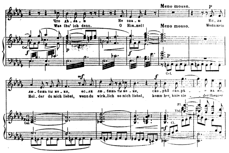 Top two systems of p. 204